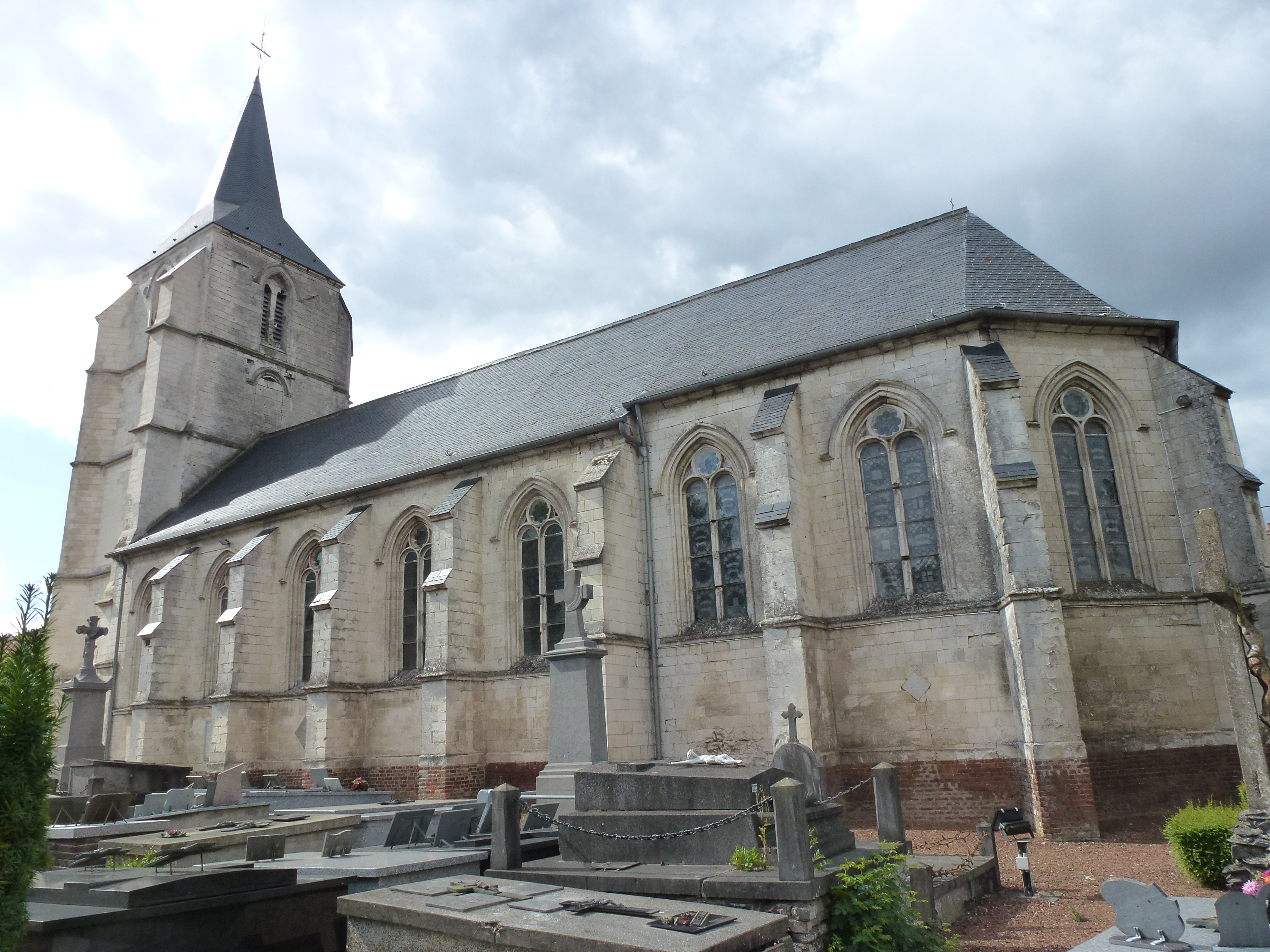 Cléty (Pas-de-Calais, Fr) église Saint-Léger